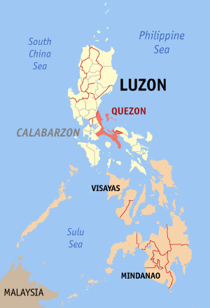 Map of the Philippines showing the location of Quezon